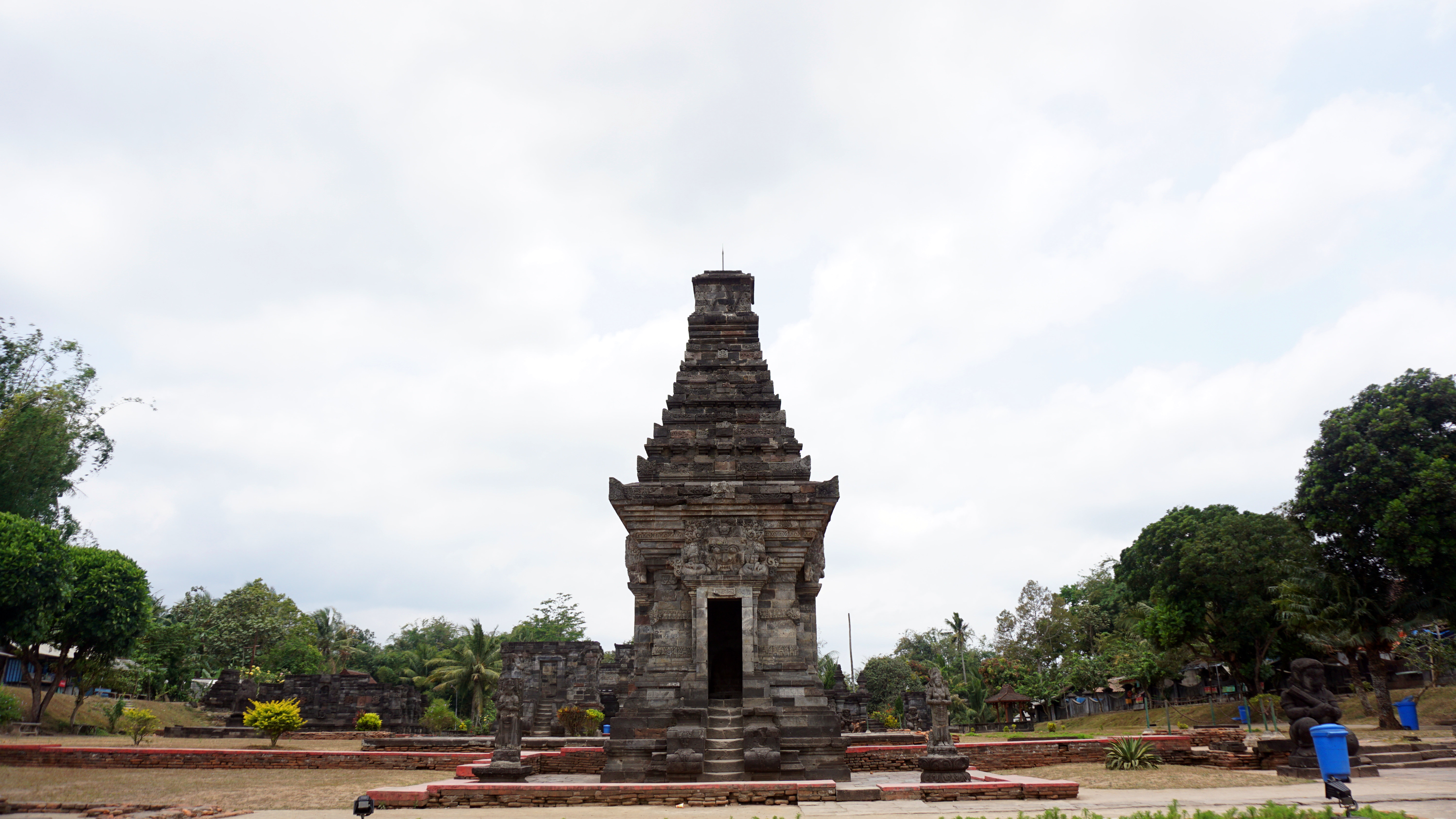 Main Building of Penataran Temple in Blitar